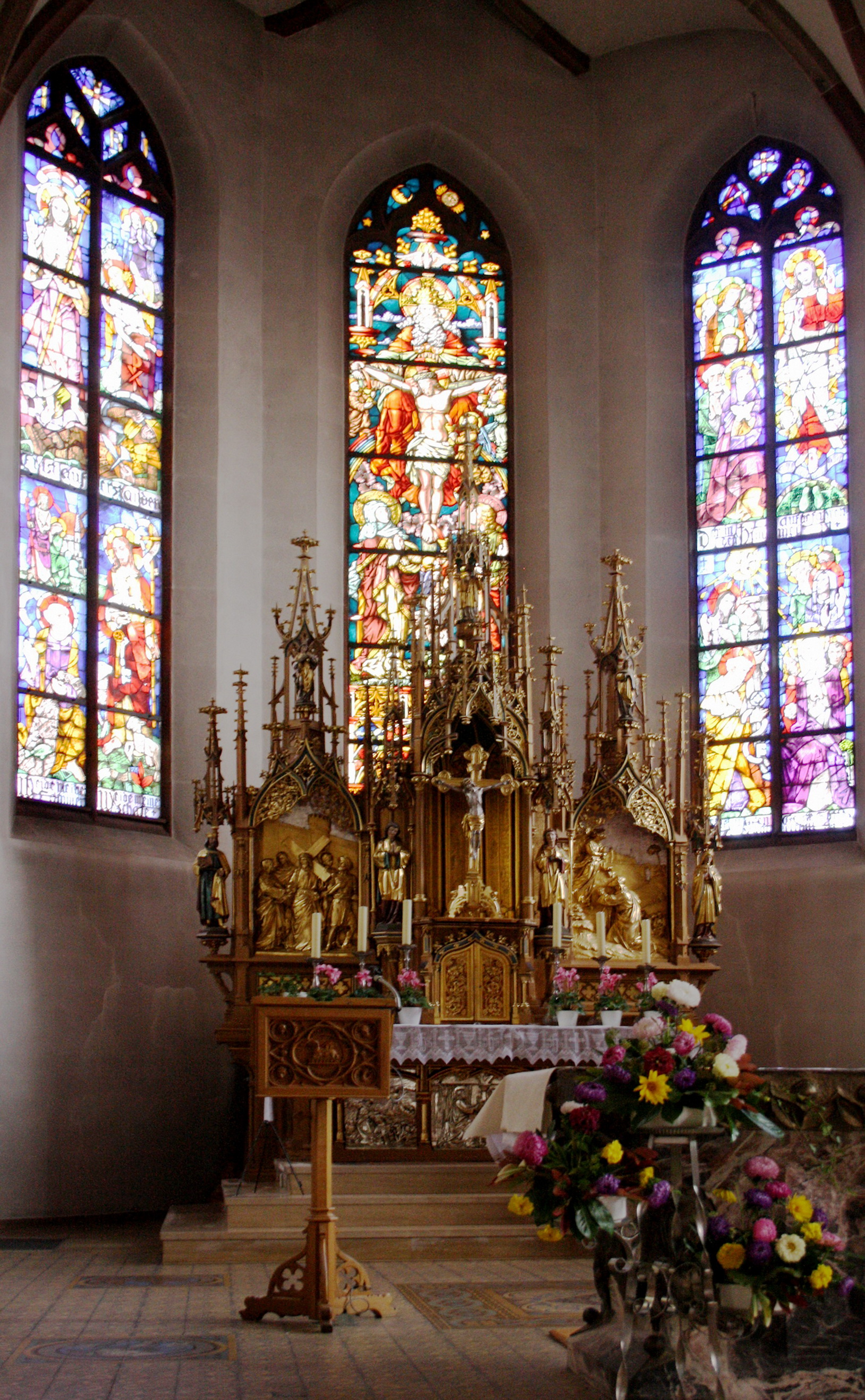 Altar area of the church St. Martin in the village St. Martin.